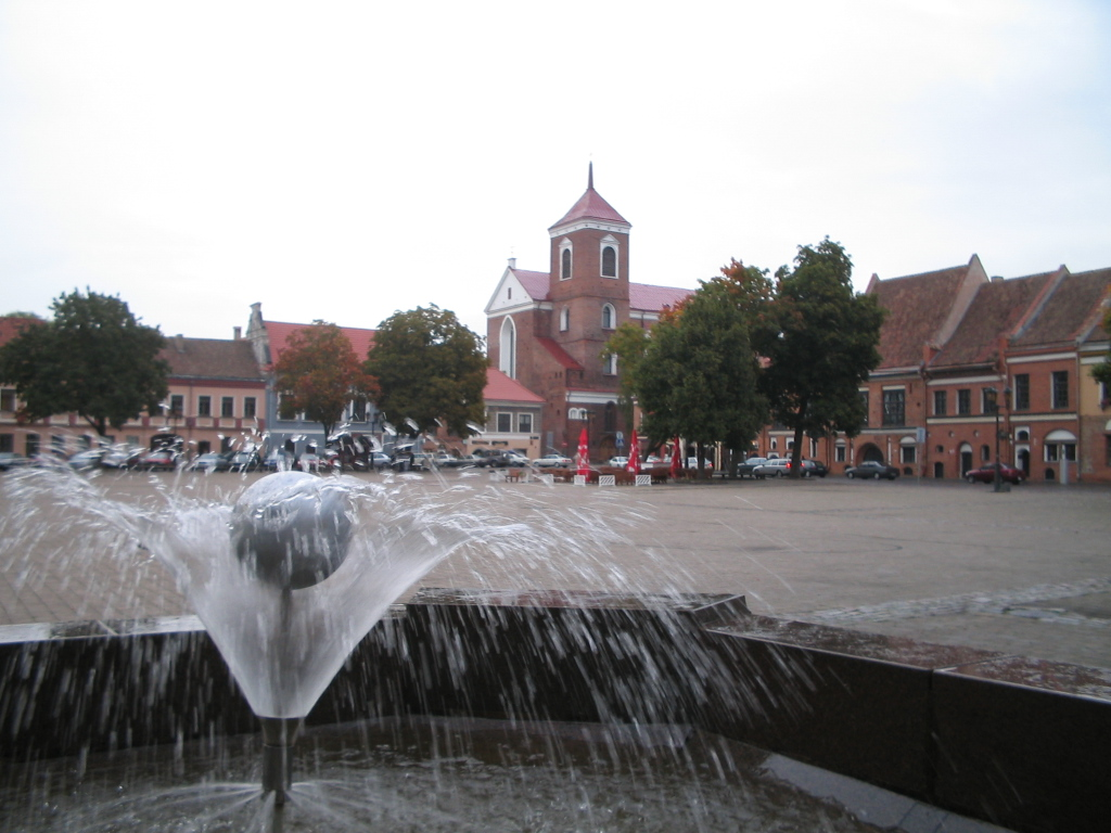 City Hall Square, Kaunas (Lithuania).